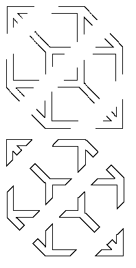 Depth perception